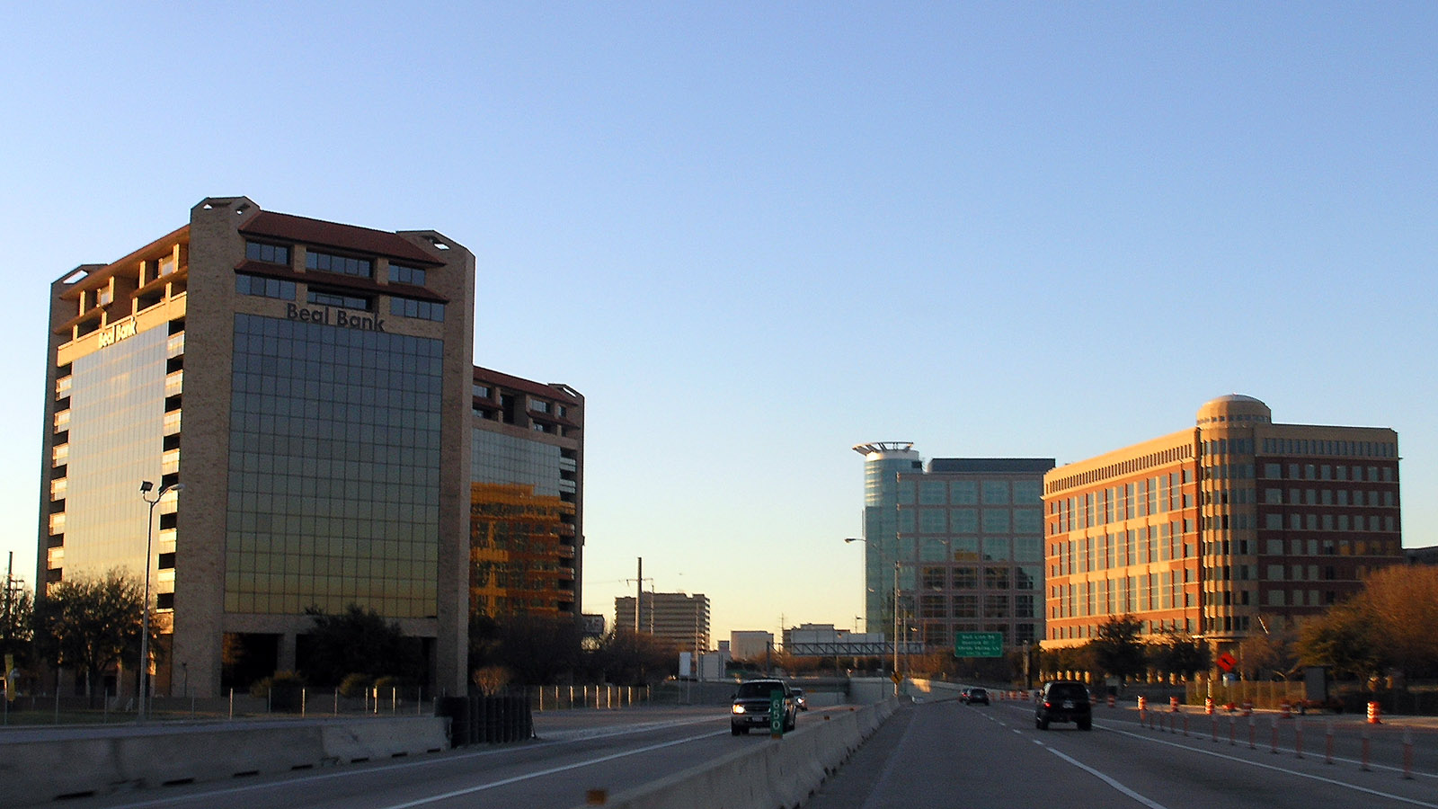 Buildings around the intersection of the Dallas North Tollway and Arapaho Road in the Dallas-Fort Worth Metroplex of north Texas (USA). The cluster is part of the Platinum Corridor—The buildings on the east (here, left) are in north Dallas and the buildings on the west (here, right) are in the town of Addison.